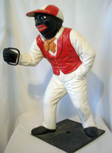 Lawn jockey